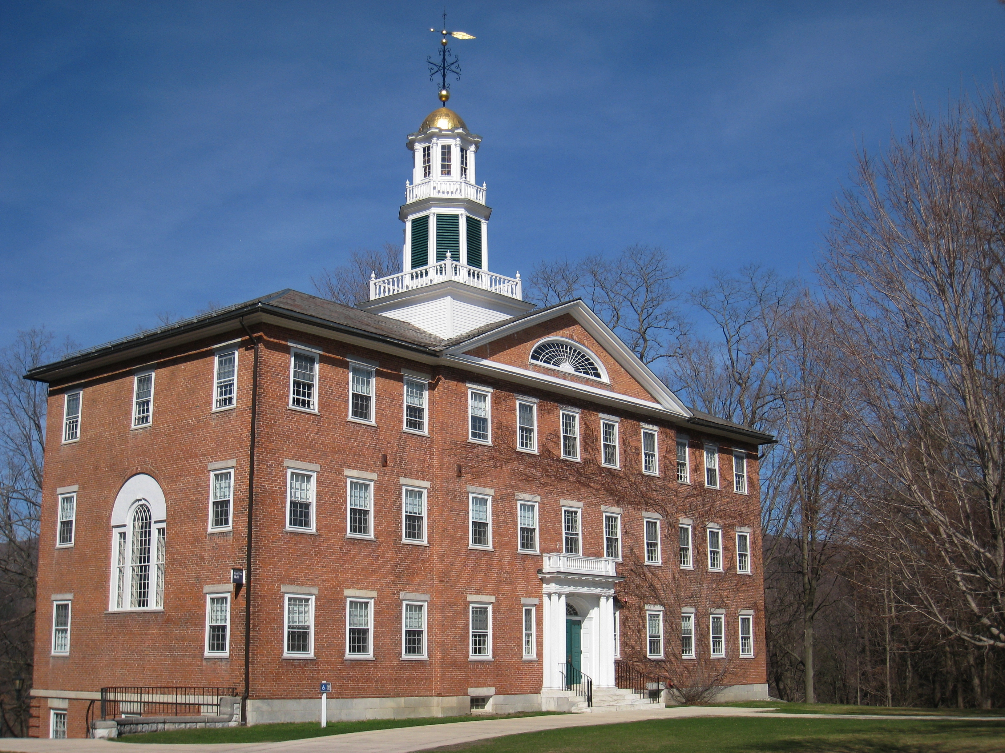 Williams College - Griffin Hall. Williamstown, Massachusetts, USA.